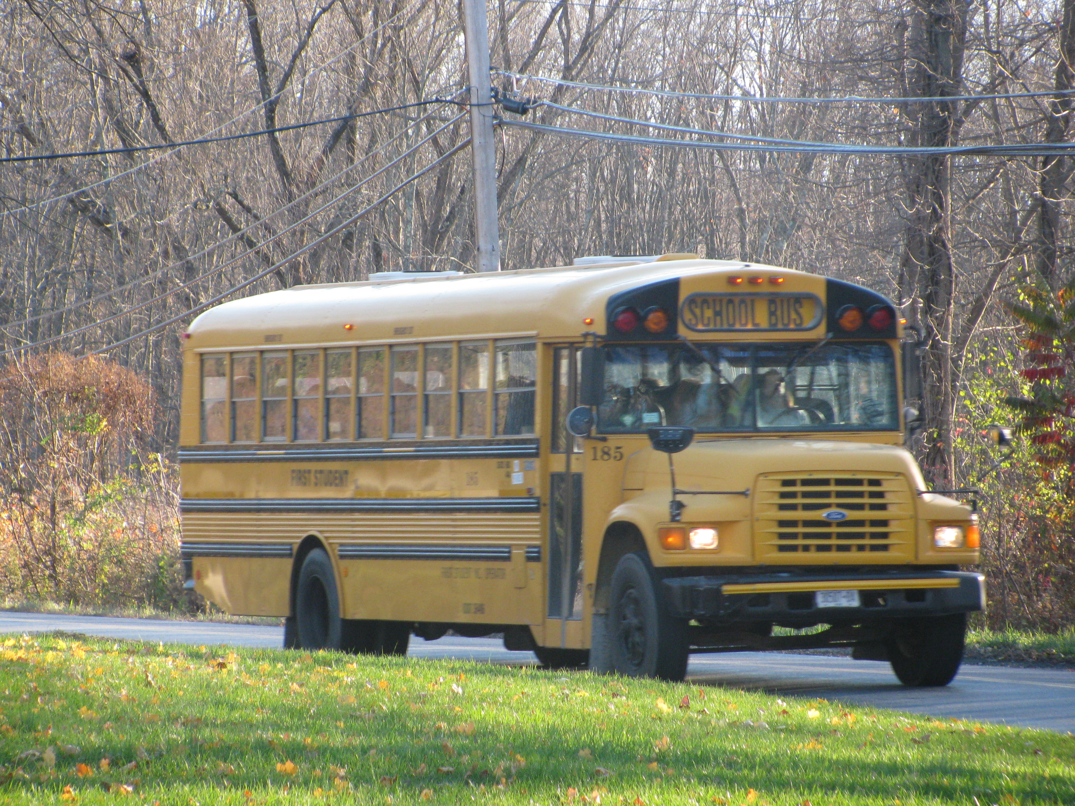 A photograph of a school bus operated by school bus contractor First Student in New York State. The bus is a 1997 Thomas Conventional with a Ford B800 chassis.